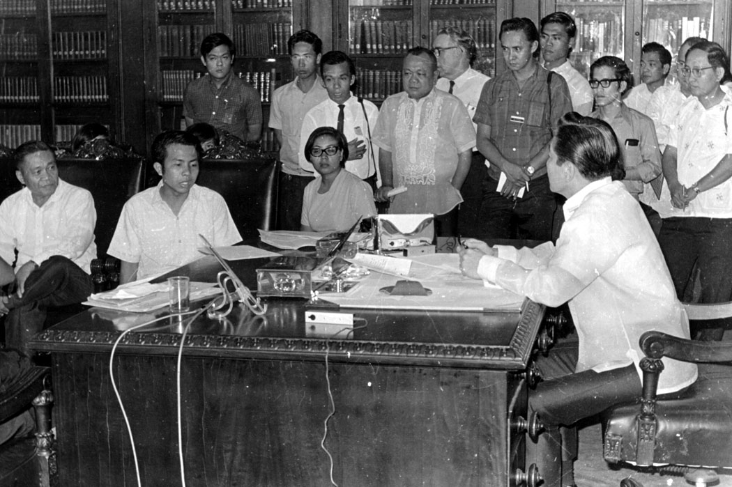 Philippine President Ferdinand E. Marcos dialogues with students and faculty members of the University of the Philippines in Malacañang in January 1970.